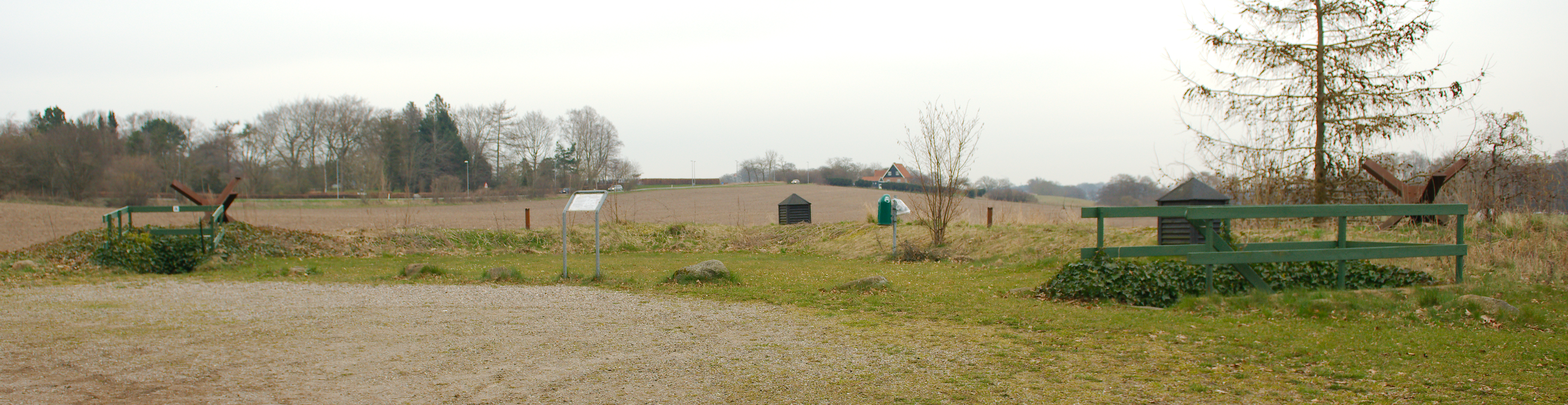 Bunker museum in the city of Ollerup